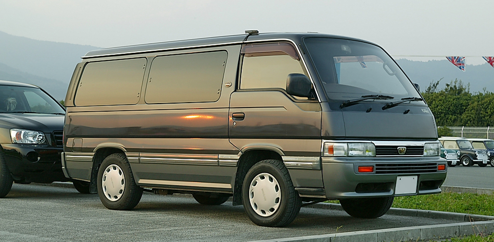 Nissan Homy Coach (E24) 2.7 turbo-diesel GT-Cruise '90.10 - '95.7